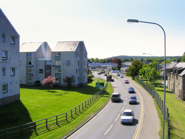 Alexandra Road from the footbridge